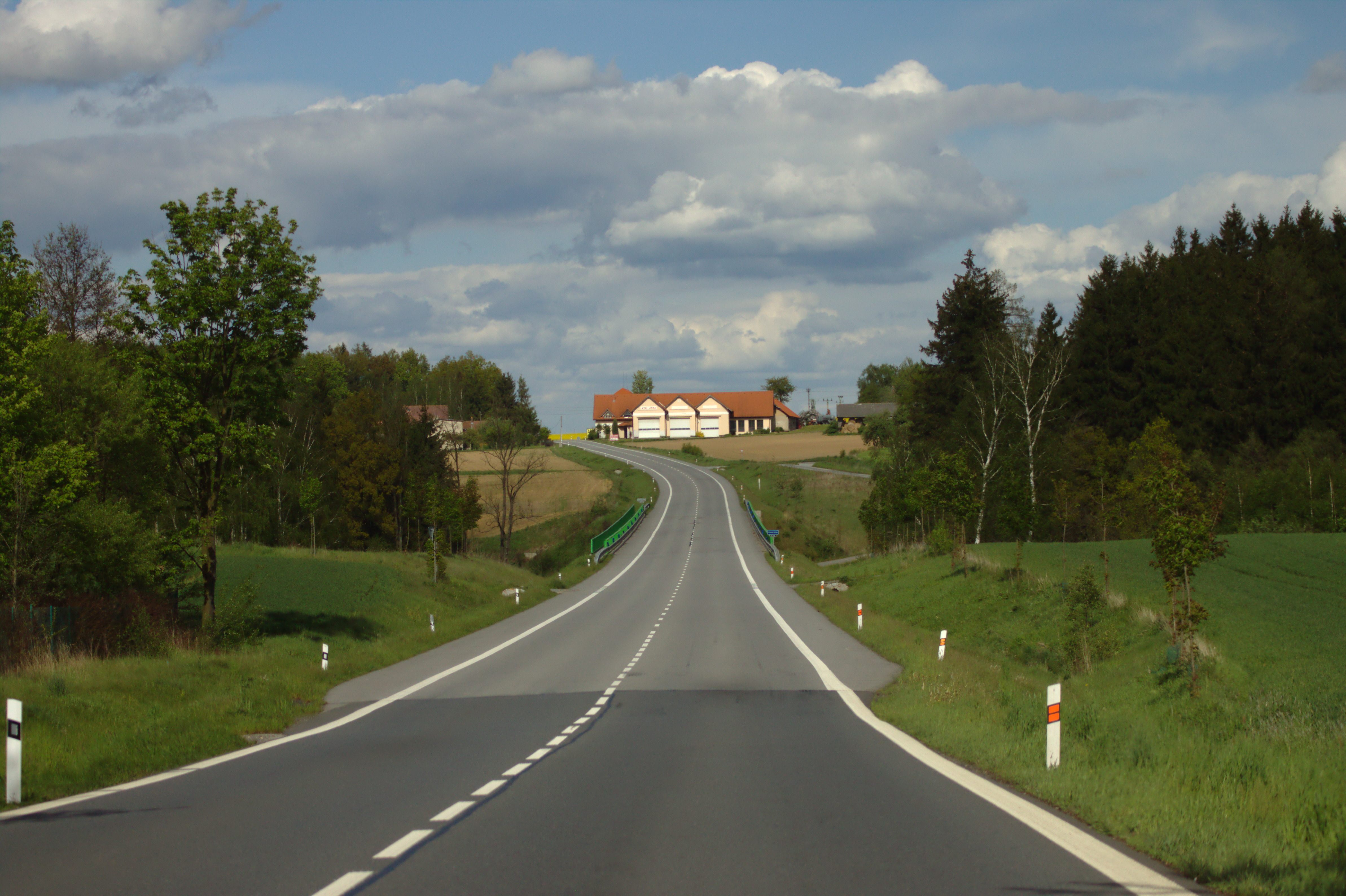 A road connecting the town of Věž with Havlíčkův Brod, Vysočina Region, CZ